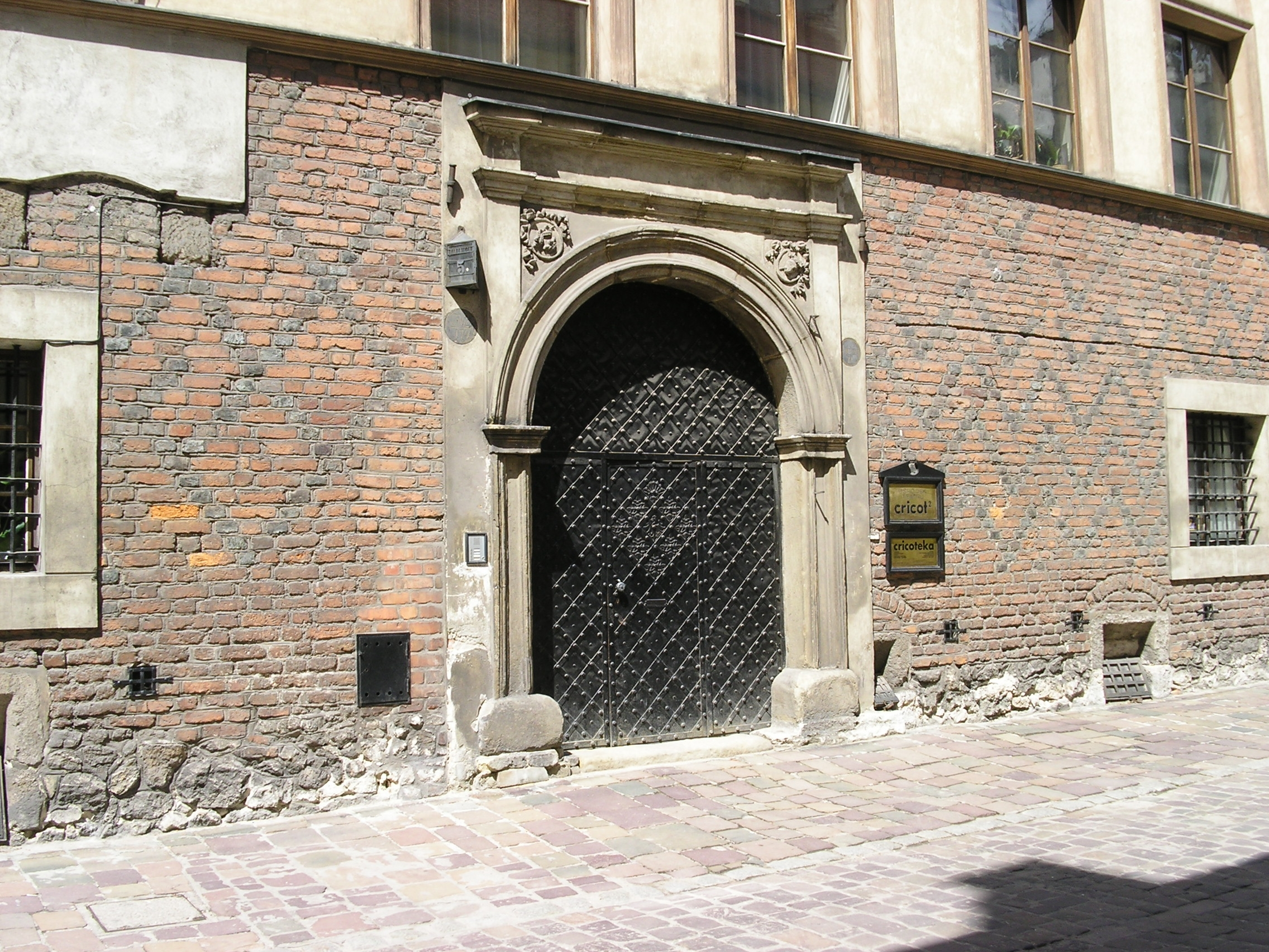 Crocot 2 Theater in Cracow, Poland (main gate)